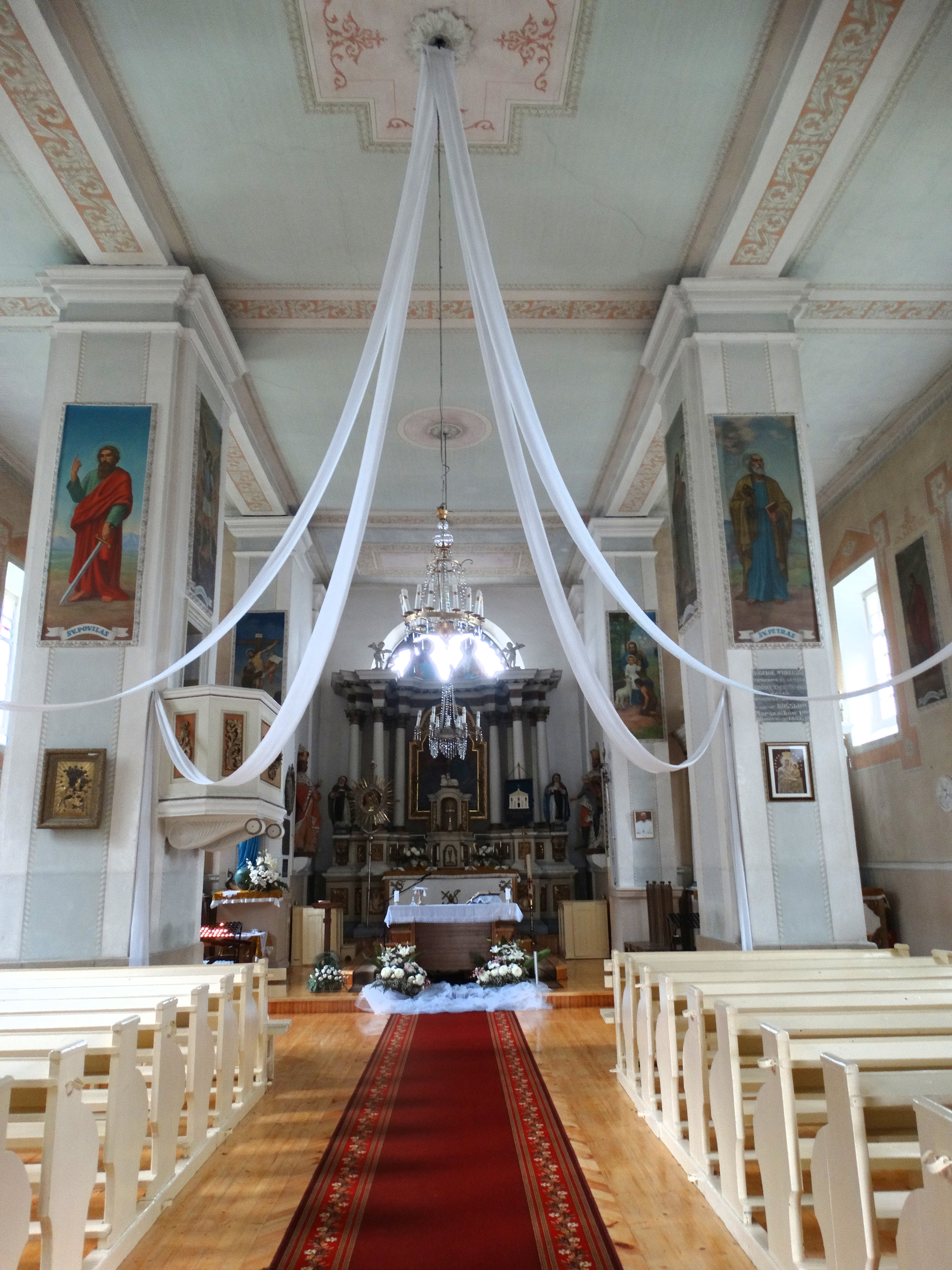 Holy Trinity church, Vidiškiai, Ukmergė district, Lithuania